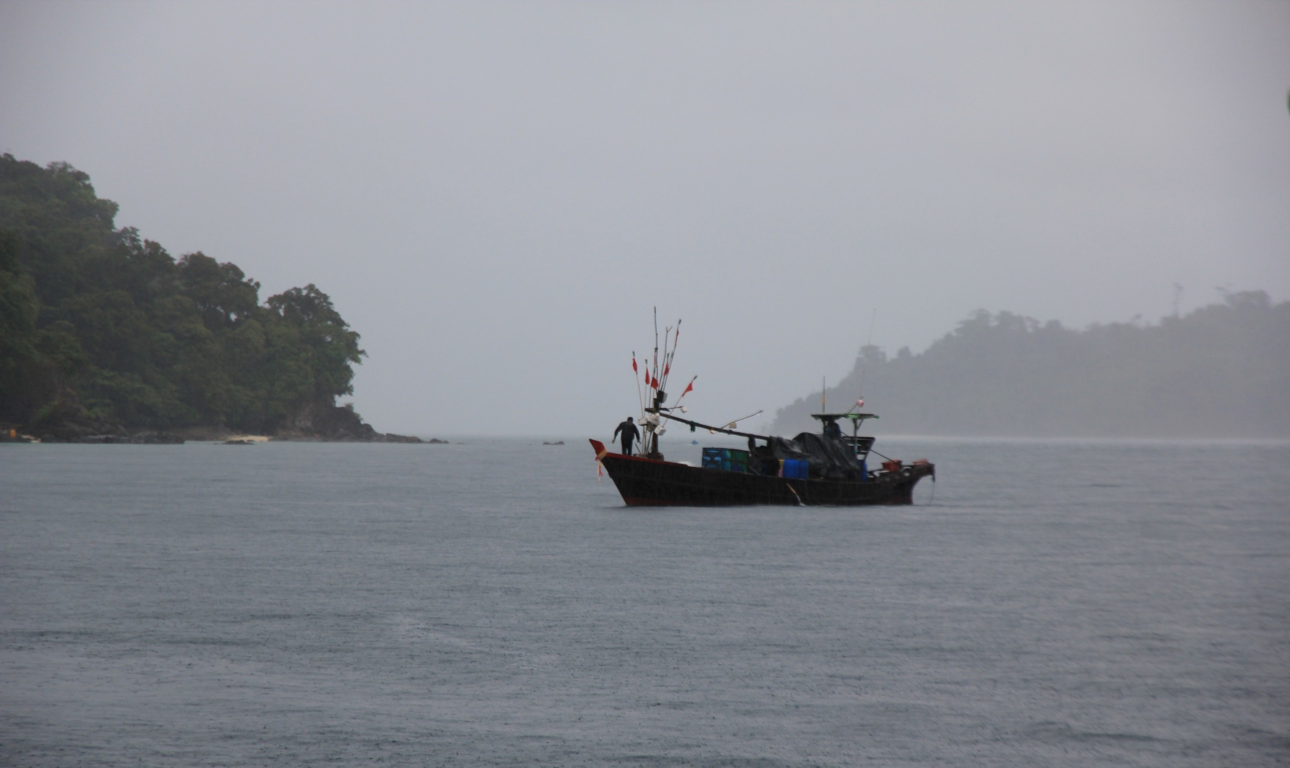 The Myeik Archipelago, Myanmar (Burma)